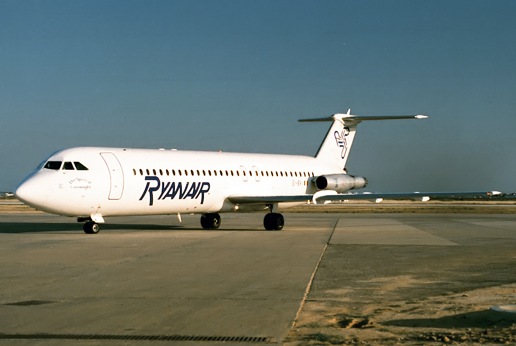 Ryanair British Aerospace BAC-111-525FT One-Eleven EI-BVI at Faro Airport